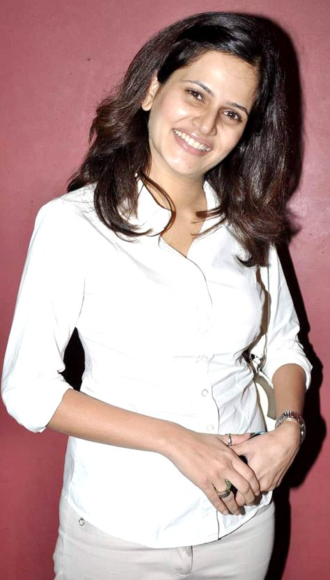 Marathi film actress Manava Naik at the premier of her film No Entry Pudhe Dhoka Aahe (2012).